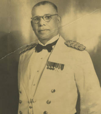 Walter Loving director of Philippine Constabulary Band in 1940 Other information Albert Sonnichsen papers, 1874-1944- box 12, folder 3, folio w back of photo stamped "U.S. Army"